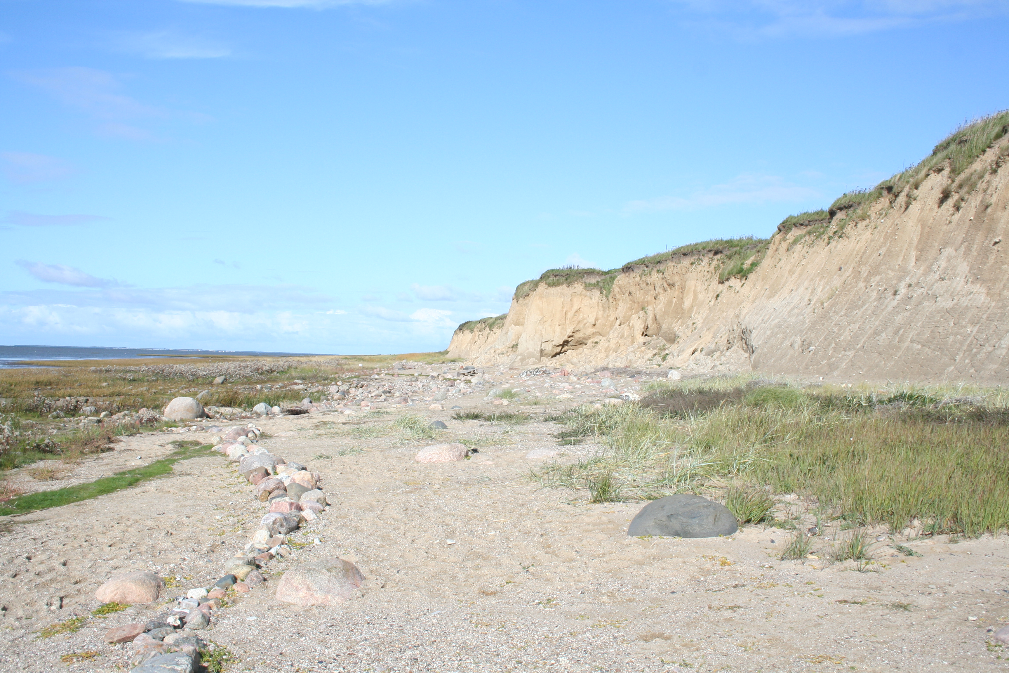 Picture of the cliff near Emmerlev Klev.